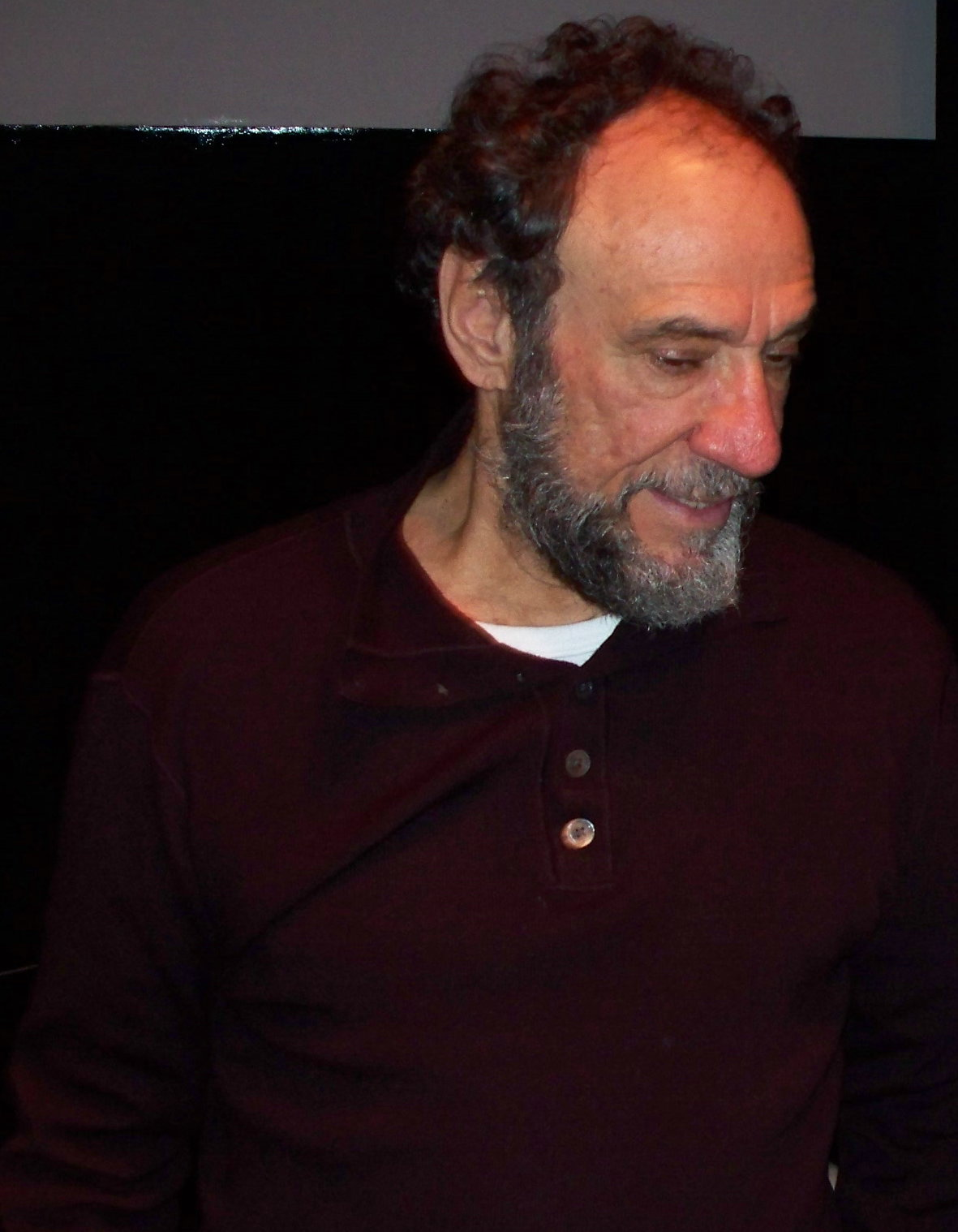 The american actor and former Oscard Award F.Murray.Abraham